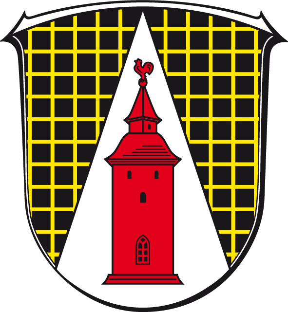 Coat of Arms of Reiskirchen